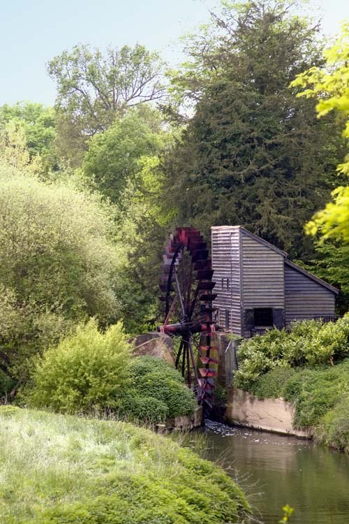 Author: Antony McCallum